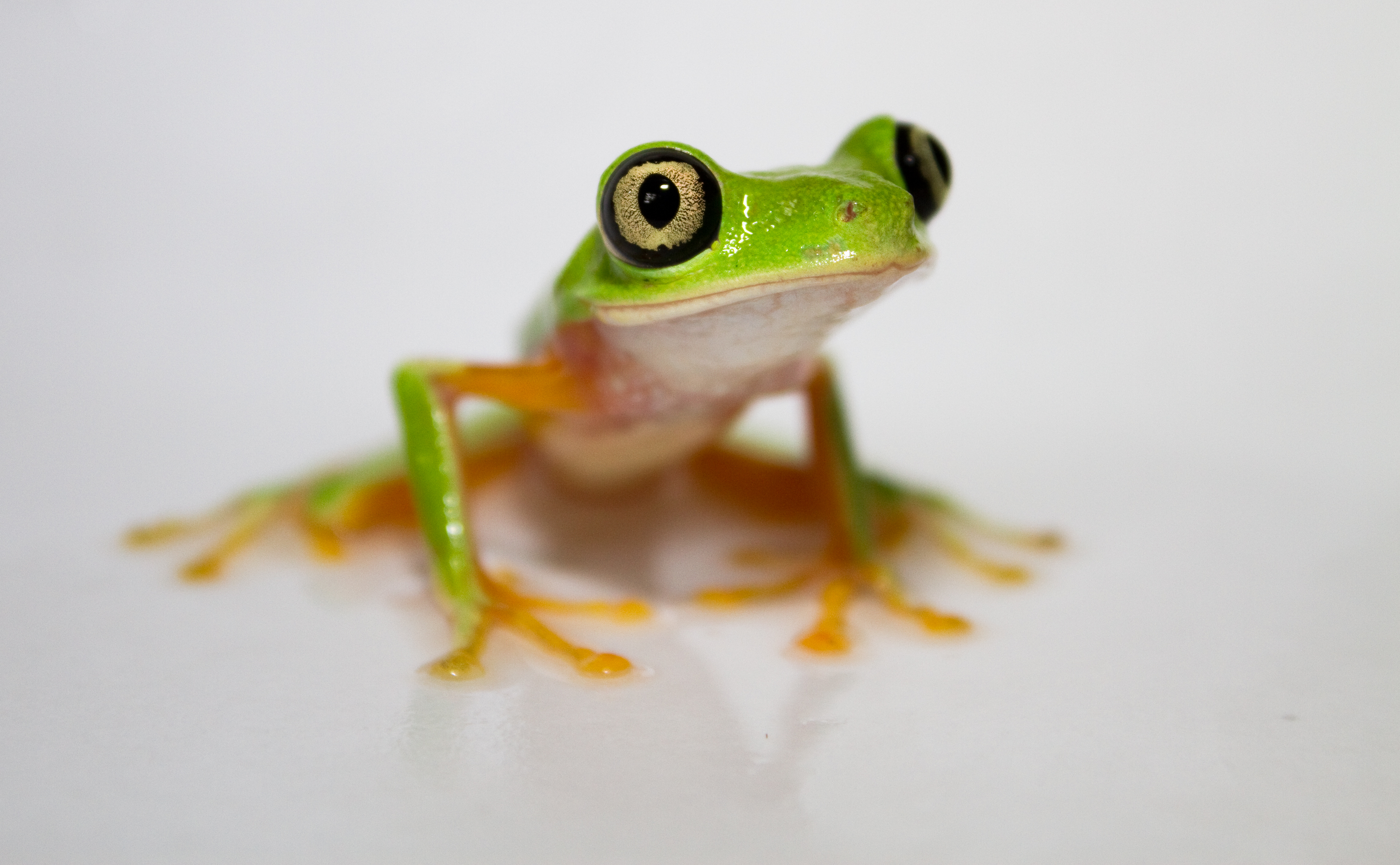 Lemur leaf frog